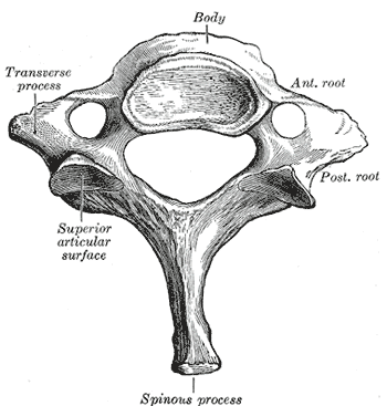 Seventh cervical vertebra (vertebra prominens).